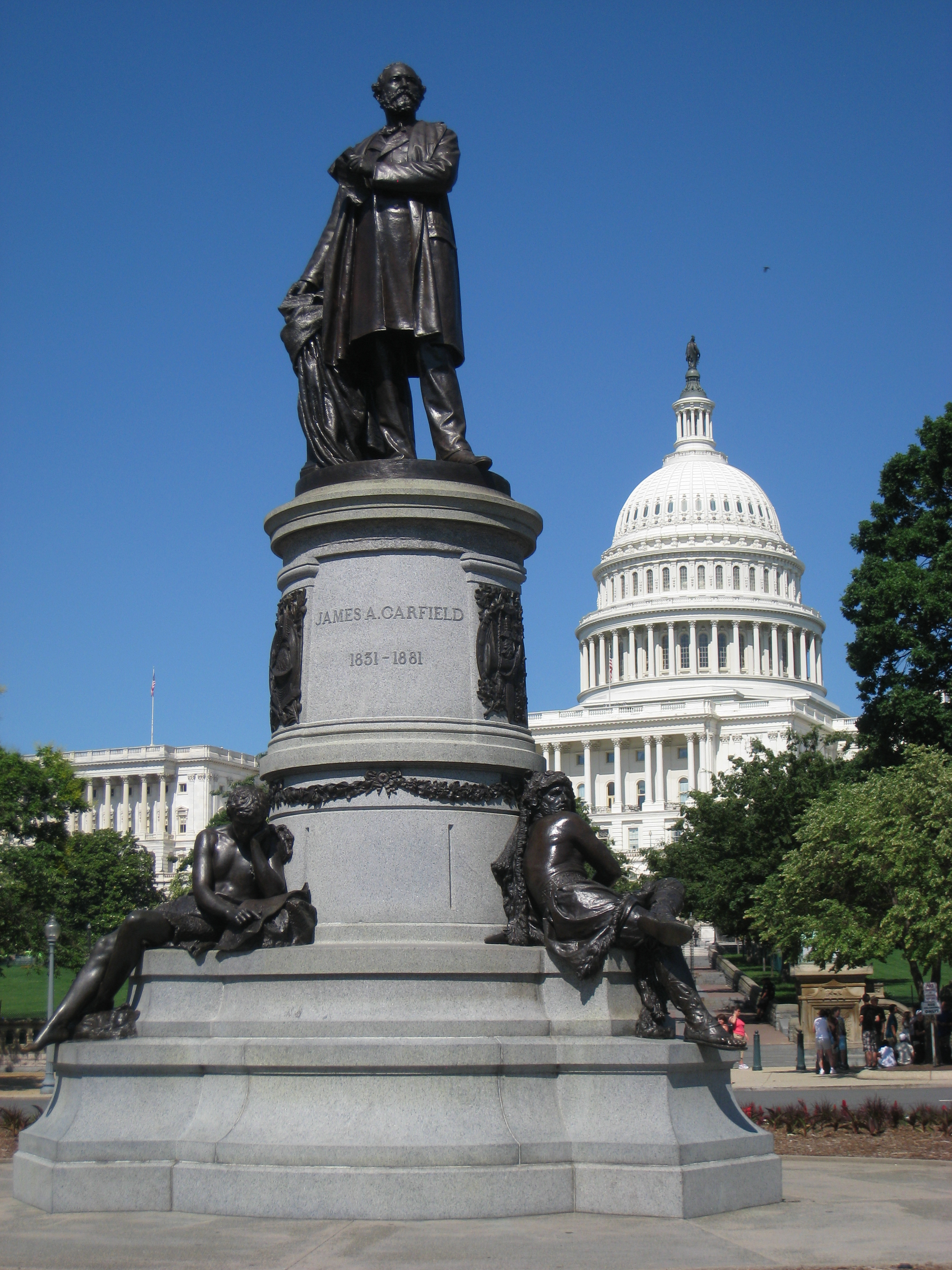 James A. Garfield Monument, Washington, DC, USA. Sculpted by John Quincy Adams Ward, with pedestal by Richard Morris Hunt.